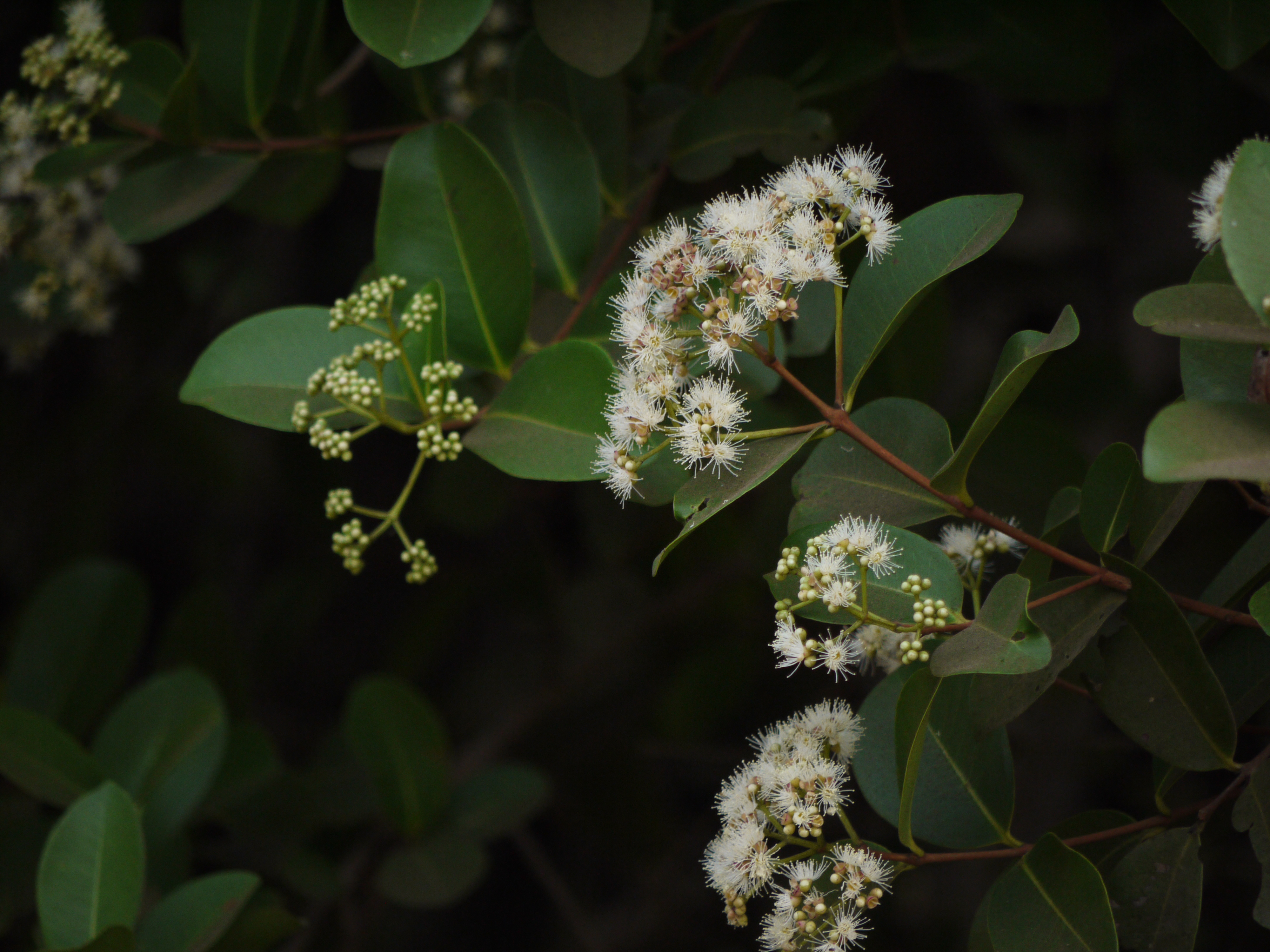 Myrtaceae (myrtle family) » Syzygium caryophyllatum siz-ZY-gee-um -- from the Greek syzygos (joined), referring to the paired leaves kar-ee-oh-FIL-ay-tum -- pink coloured or clove scented commonly known as: clove-scented plum, south Indian plum • Kannada: ಕುಂಟ ನೇರಳೆ kunta nerale • Konkani: भेडशी bhedshi • Malayalam: ഞാറ njaara • Marathi: भेडशी bhedshi, रान लवंग ran lavang • Sanskrit: ह्रस्वजम्बु hrasvajambuh, क्षुद्रजम्बु kshdurajambu, लवङ्गः lavangah Endemic to: s-w Western Ghats of India, Sri Lanka References: Flowers of India • ENVIS - FRLHT • Biotik • Further Flowers of Sahyadri by S Ingalhalikar